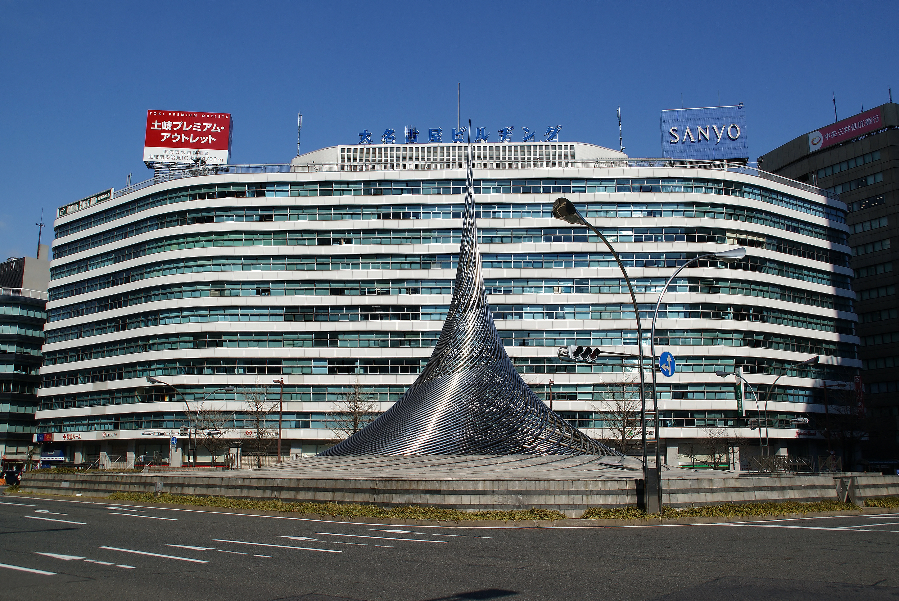 Dai-Nagoya Building.(Nakamura Ward, Nagoya City, Aichi Prefecture, Japan)